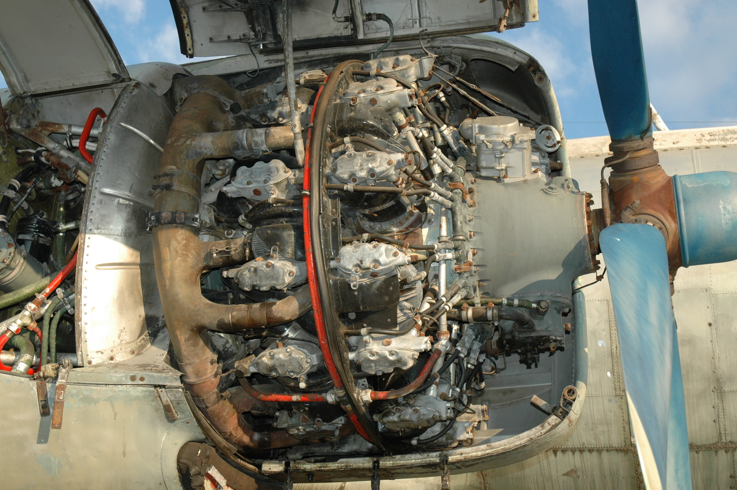 Shvetsov AS-82T radial engine mounted on Ilyushin Il-14 (Budapest, Hungary)